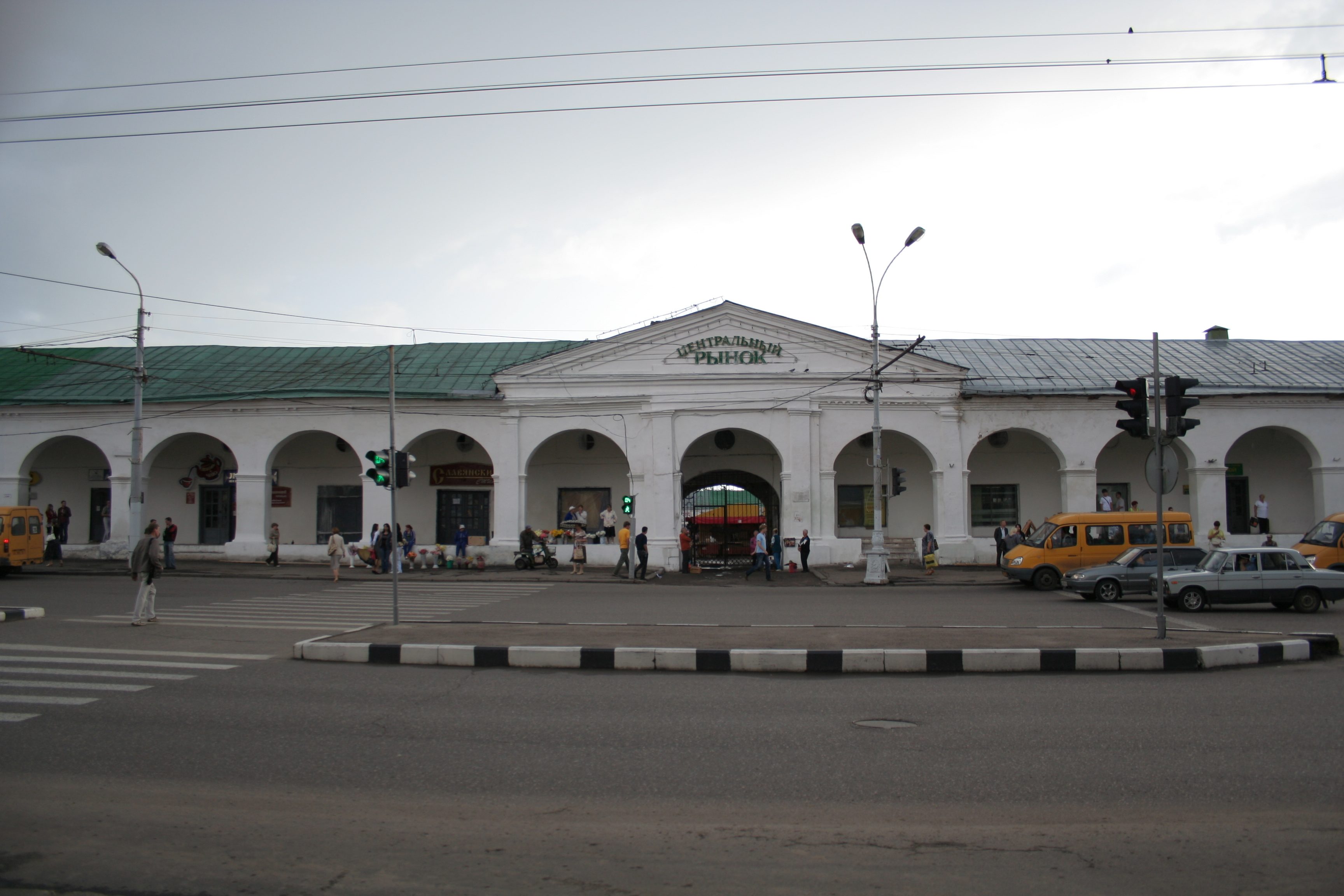 Old Trade Rows in Kostroma, Russia. Flour Rows, today Central Market.